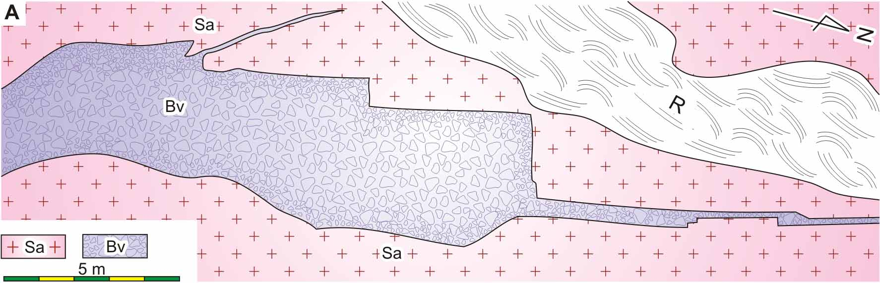 Geology of the Poço de Cobras, at Nova Iguaçu Municipal Park, Brazil